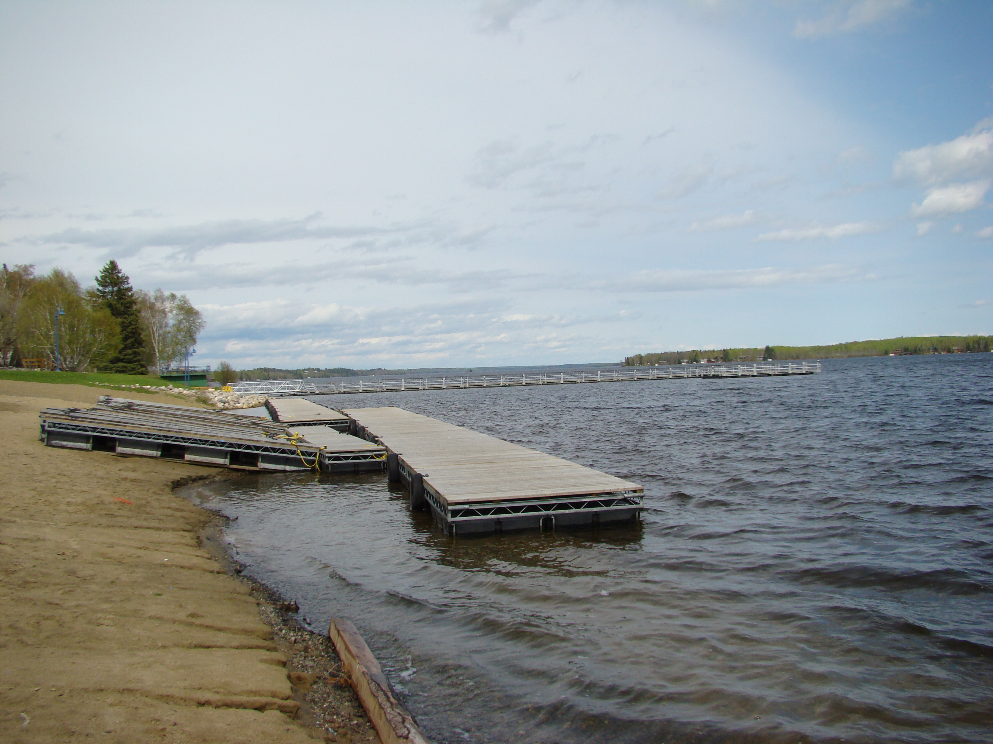 Falcon Lake Summer 2009 Manitoba Canada